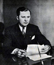 Robert A. Grant, US Representative from Indiana